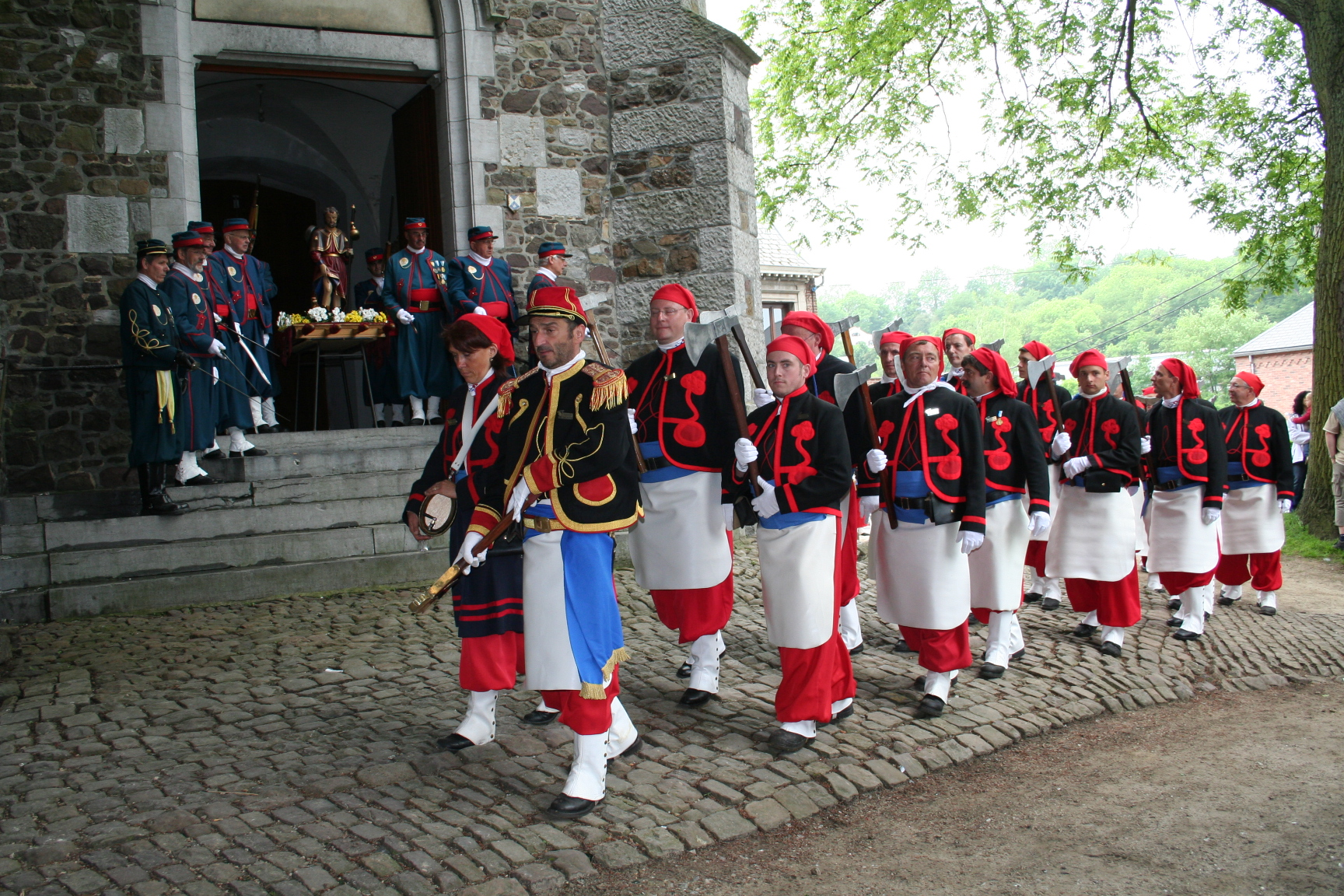 Thuin (Belgium), honors given to the St. Roch relics before the procession.